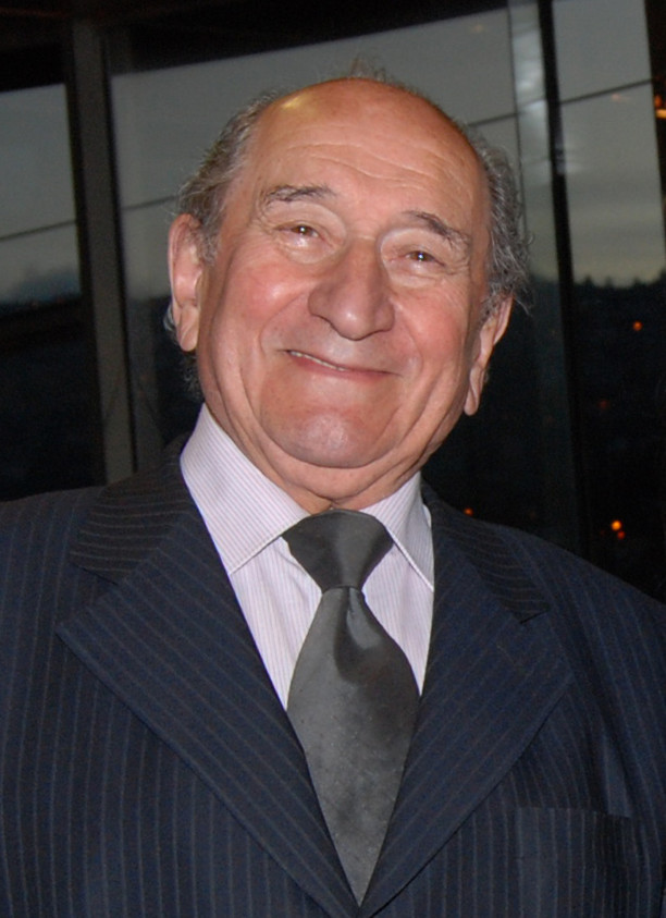 Luis Alarcón at the Gala Senado de la República